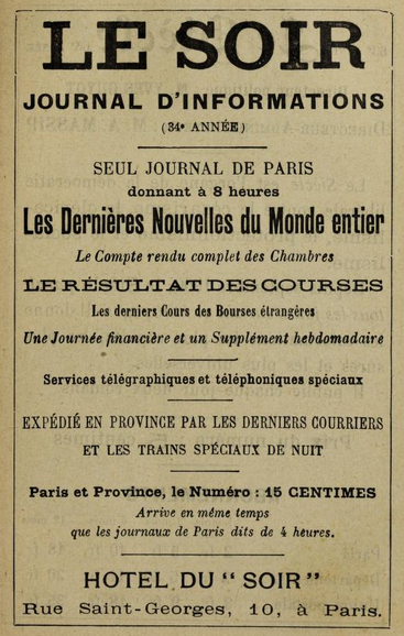 Le Soir Journal d'Informations, advertising published in Guides Joanne, printed in Paris by Hachette & Cie.